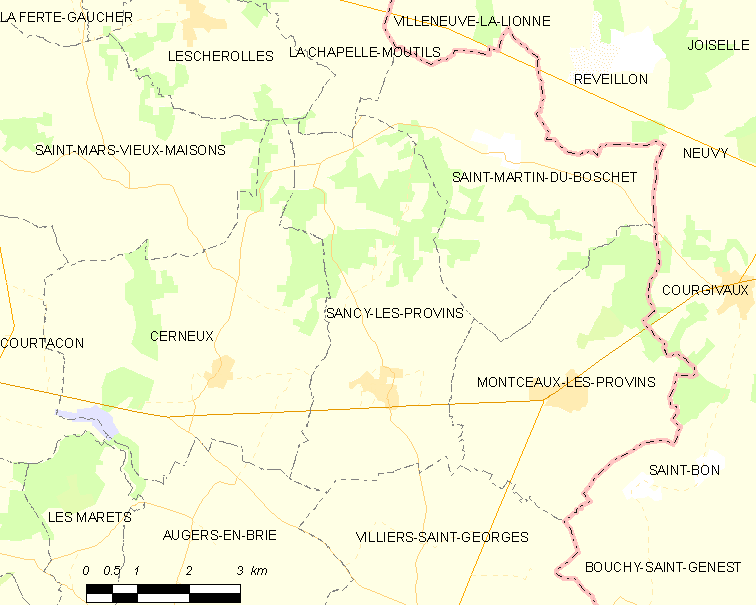 Map of French municipality Sancy-lès-Provins